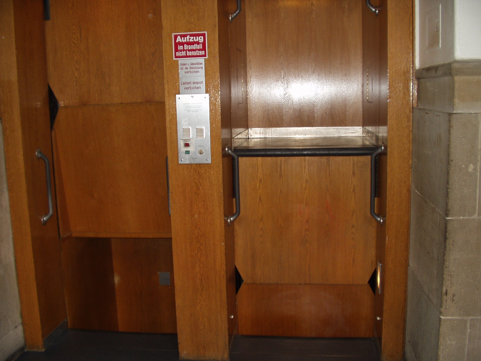 Paternoster at Town hall Kiel, Germany